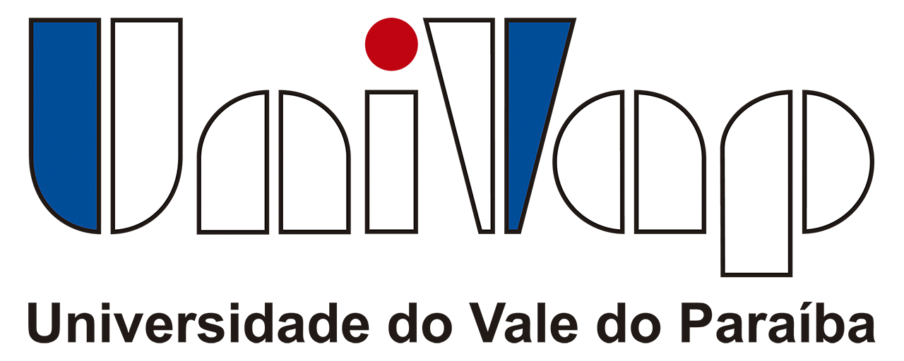 Universidade do Vale do Paraíba logo